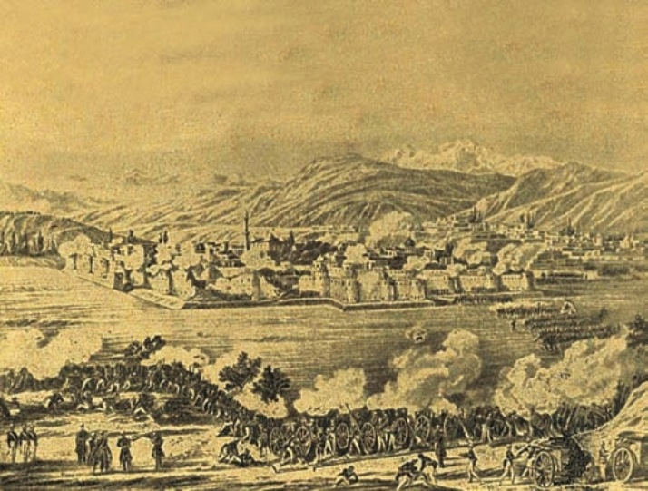 Capture of Erivan fortress 1 December 1827